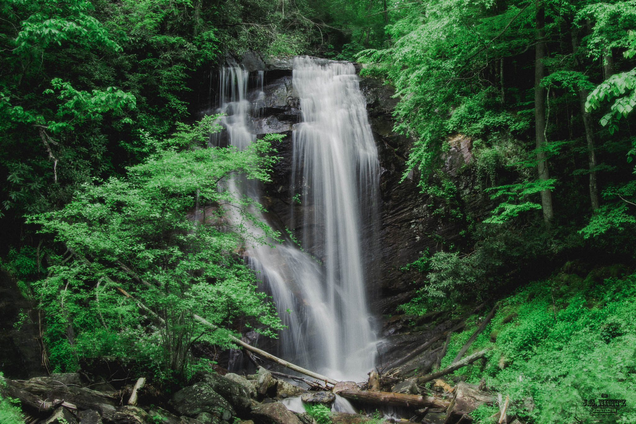 This is the smaller of the two falls